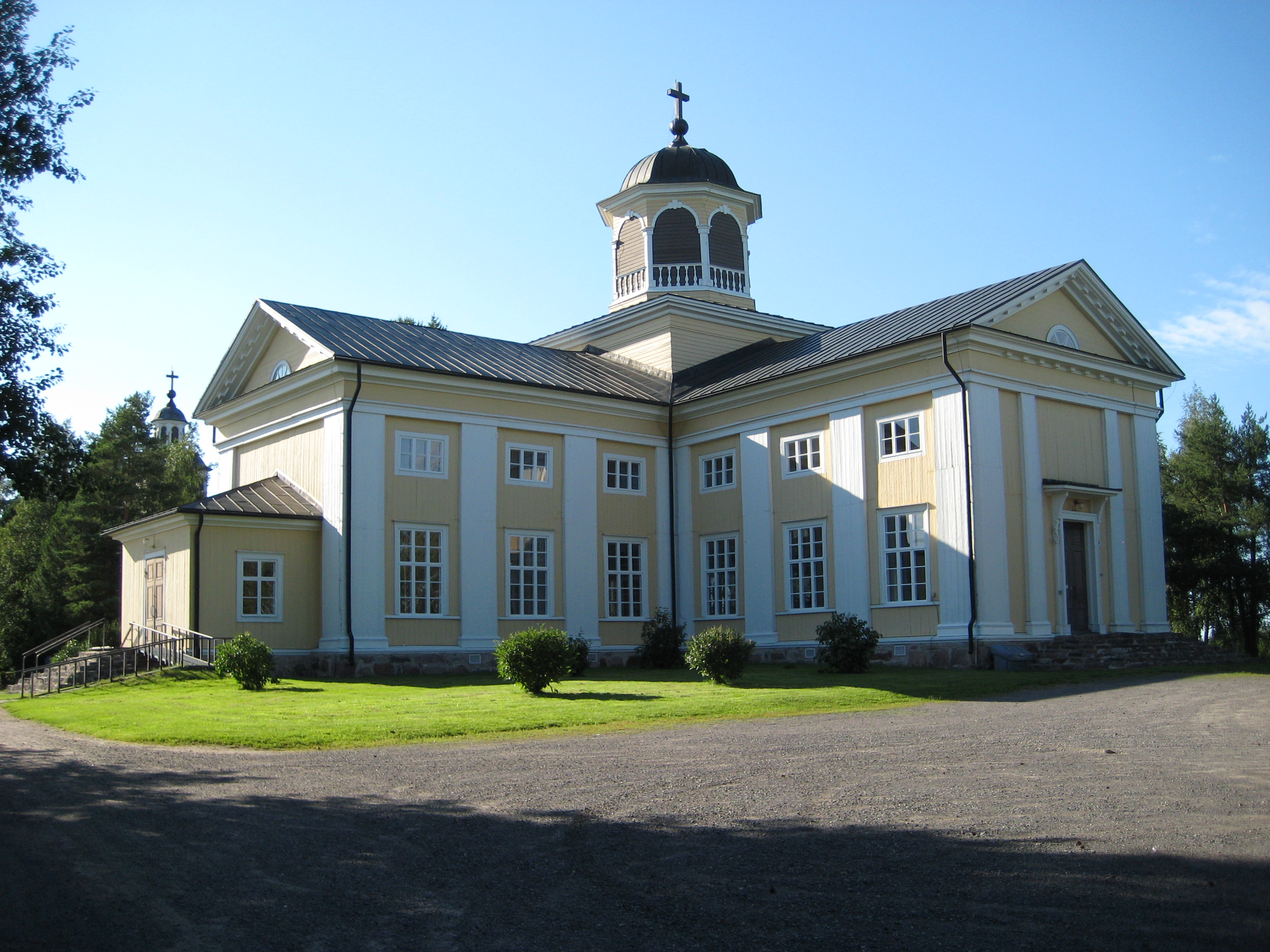 Liminka Church, located in Liminka, Finland, seen from south-west. The top of the belfry can be seen left to the church.